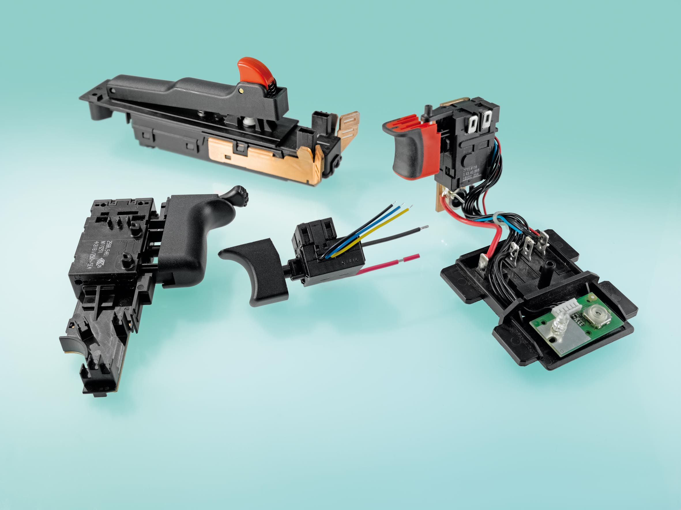 Marquardt Power Tool